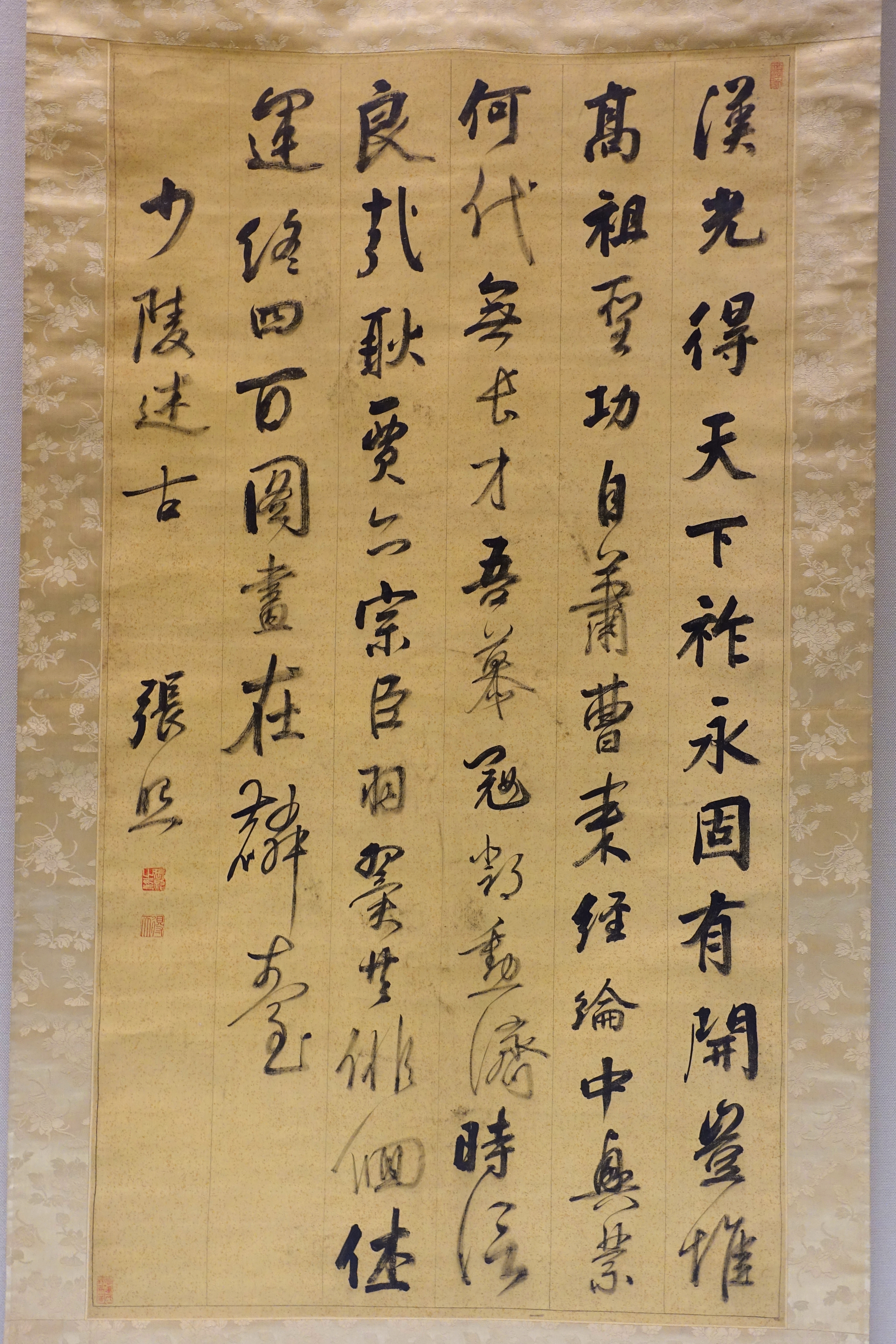 Exhibit in the Tokyo National Museum - Tokyo, Japan.